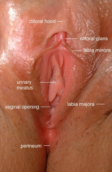 Anatomic scheme from a 23 years old woman's vulva with labels, showing major and minor labia, clitoris and vaginal opening.